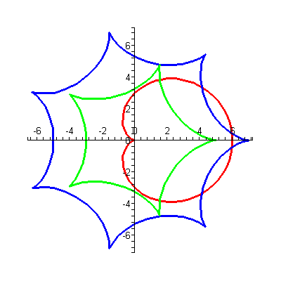 Several cycloids: two hypocycloids (blue and green) and a cardioid.